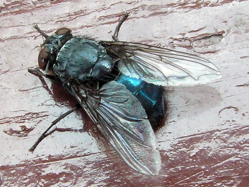 A Blow-fly (Calliphora, probably Calliphora vomitória) Photo by Jens Buurgaard Nielsen